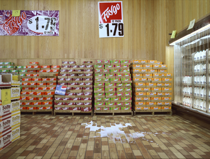 Kenosha, WI 2003 (Spilled Milk) Brian Ulrich